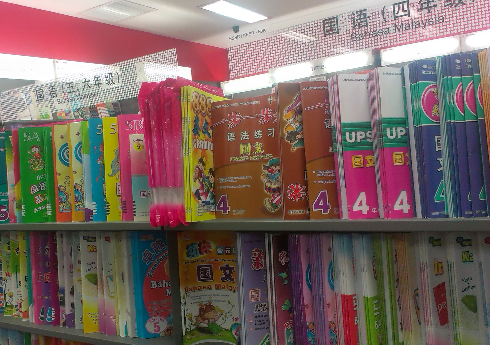 Study guides (in Madarin Chinese) for Bahasa Malaysia in a Malaysian bookstore